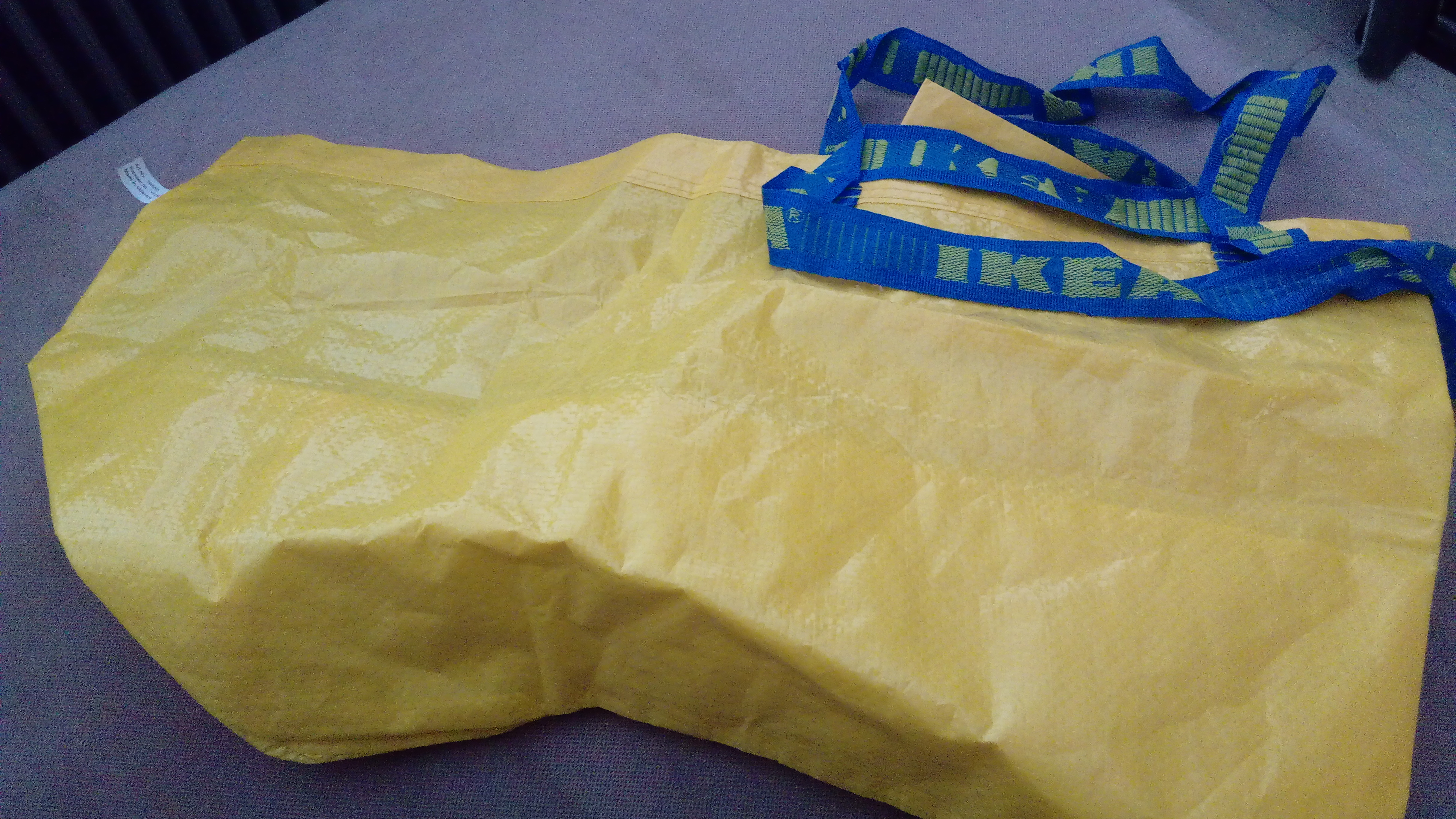 A yellow shopping bag for in-shop shopping at the IKEA, these bags may not be taken outside of the store.